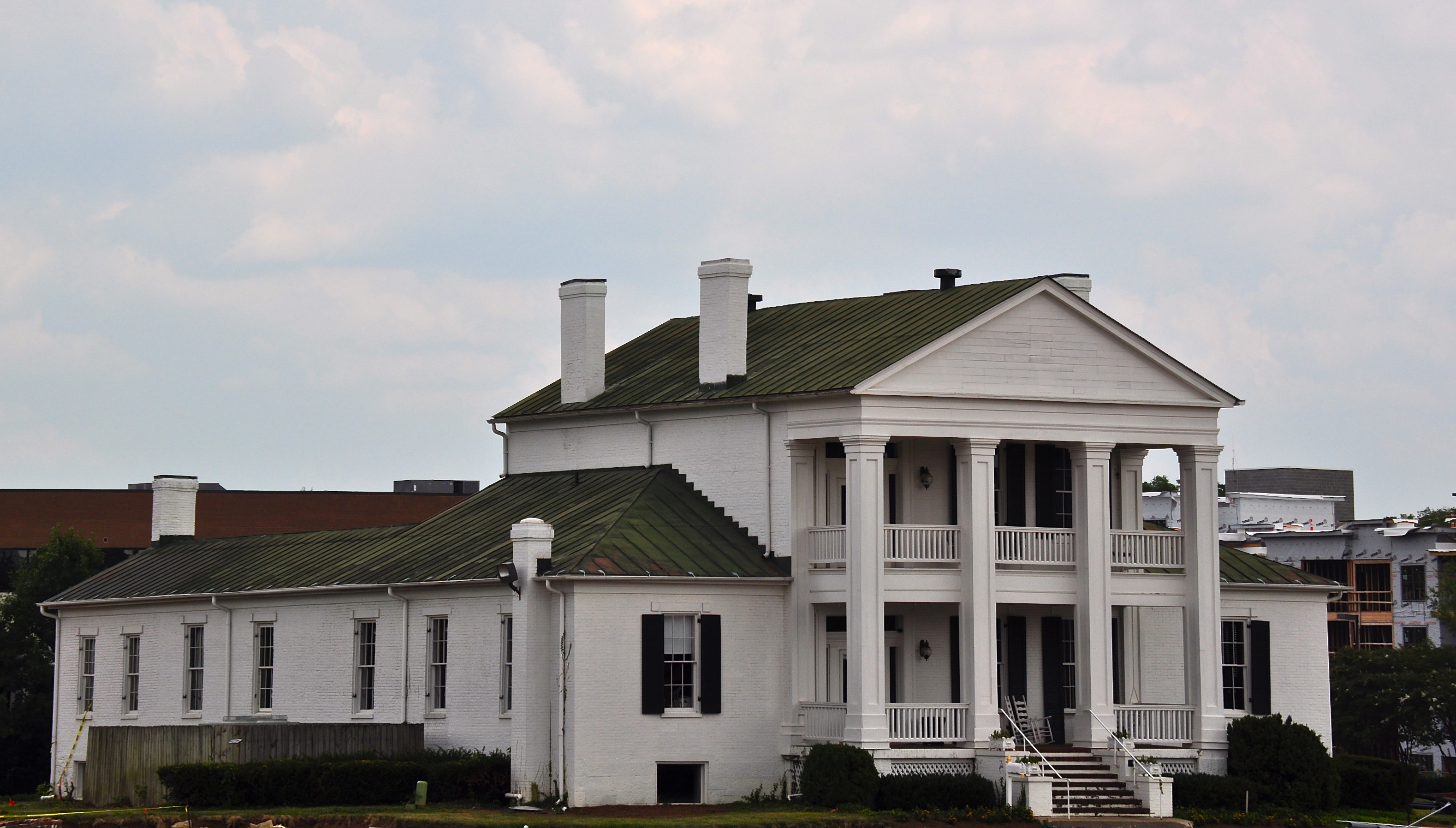 Mooreland, Off U.S. Route 31 Brentwood